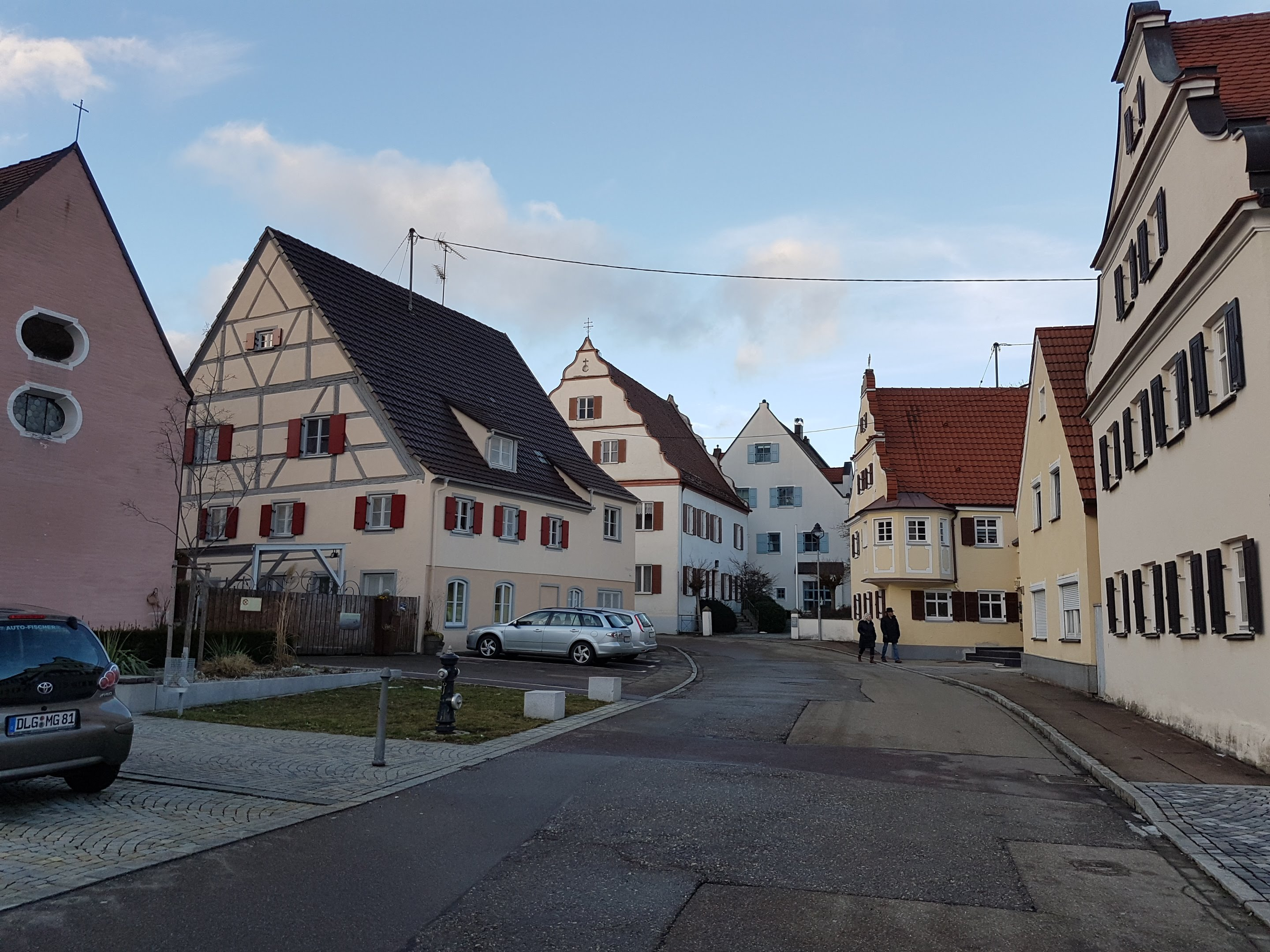 City of Wertingen